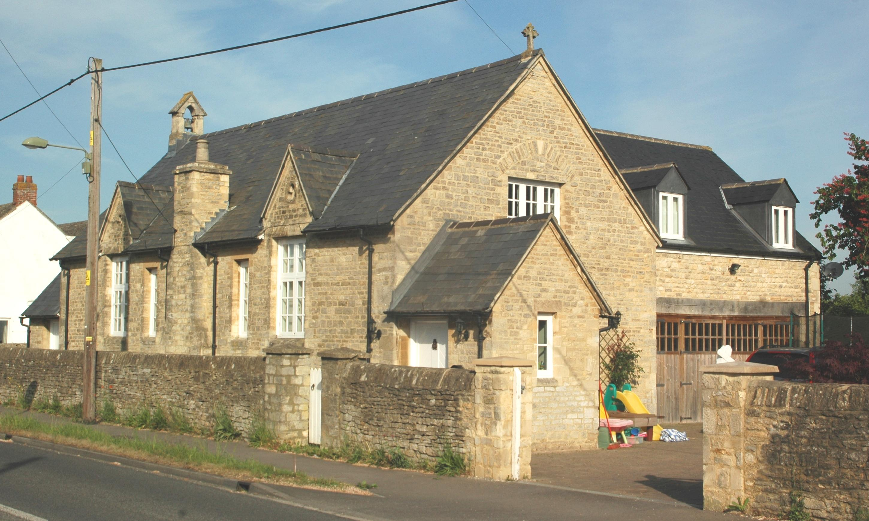 Former parish school, Long Hanborough, Oxfordshire, built in 1879